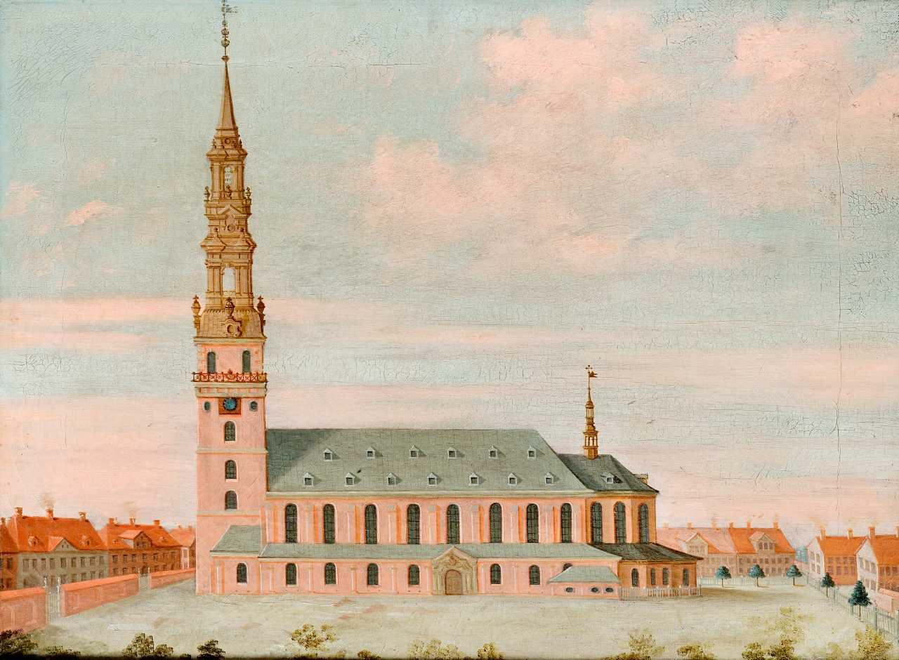 The former Church of Our Lady in Copenhagen, Denmark